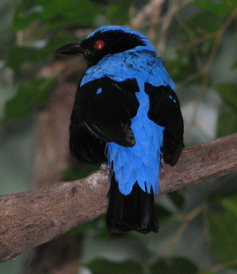 Asian Fairy Bluebird - Irena puella